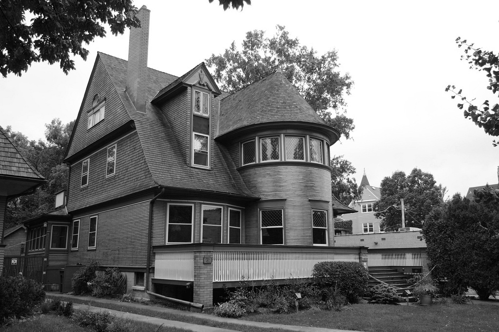 Walter Gale House (Frank Lloyd Wright)